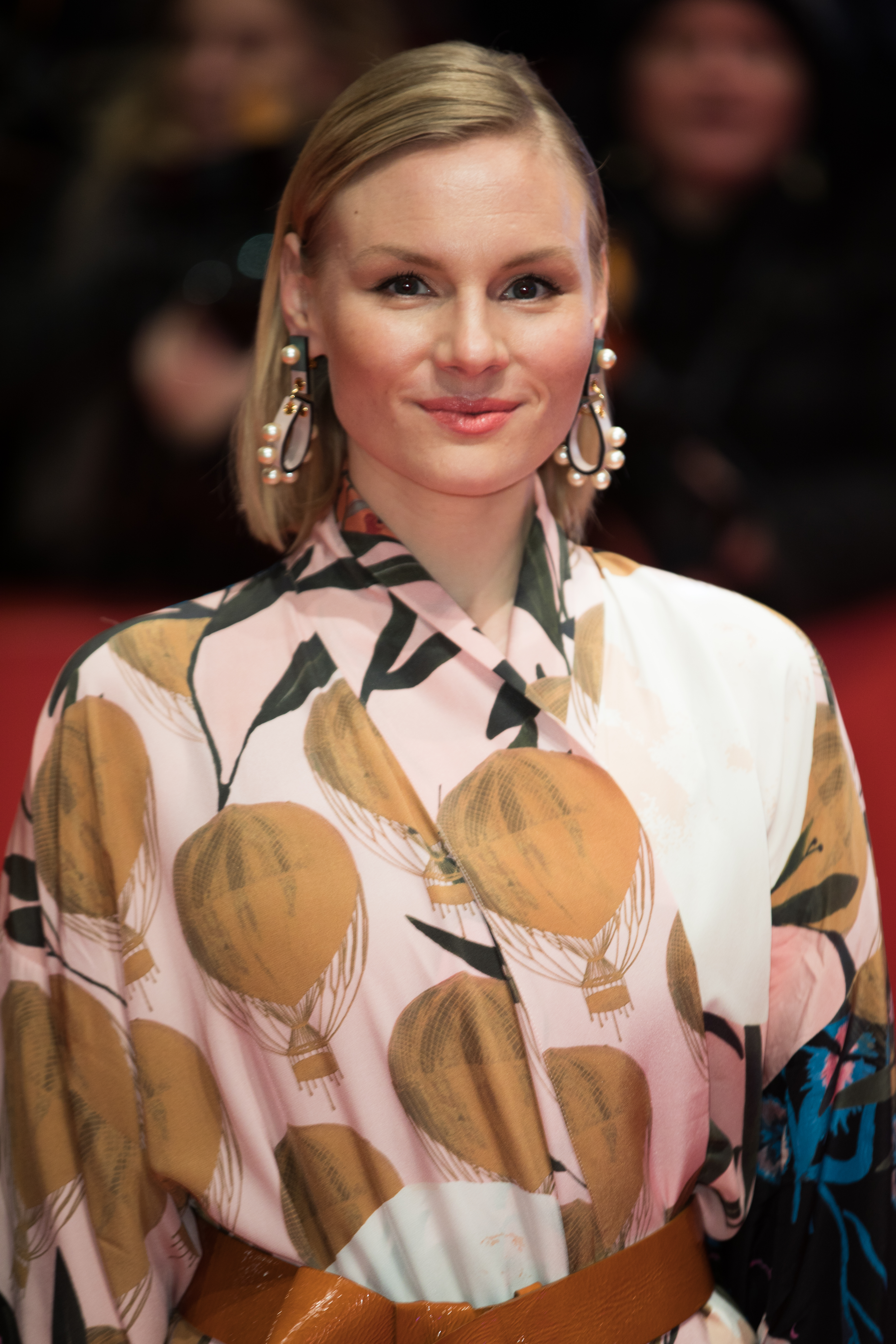 Rosalie Thomass at the opening ceremenony of the Berlinale 2018